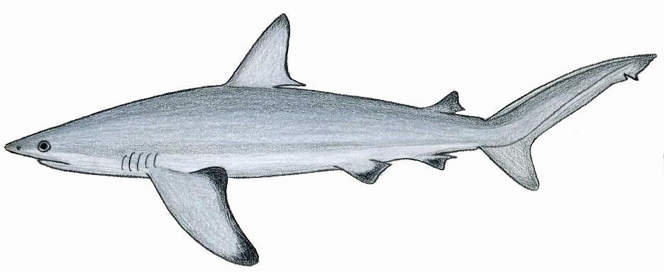 Carcharhinus altimus